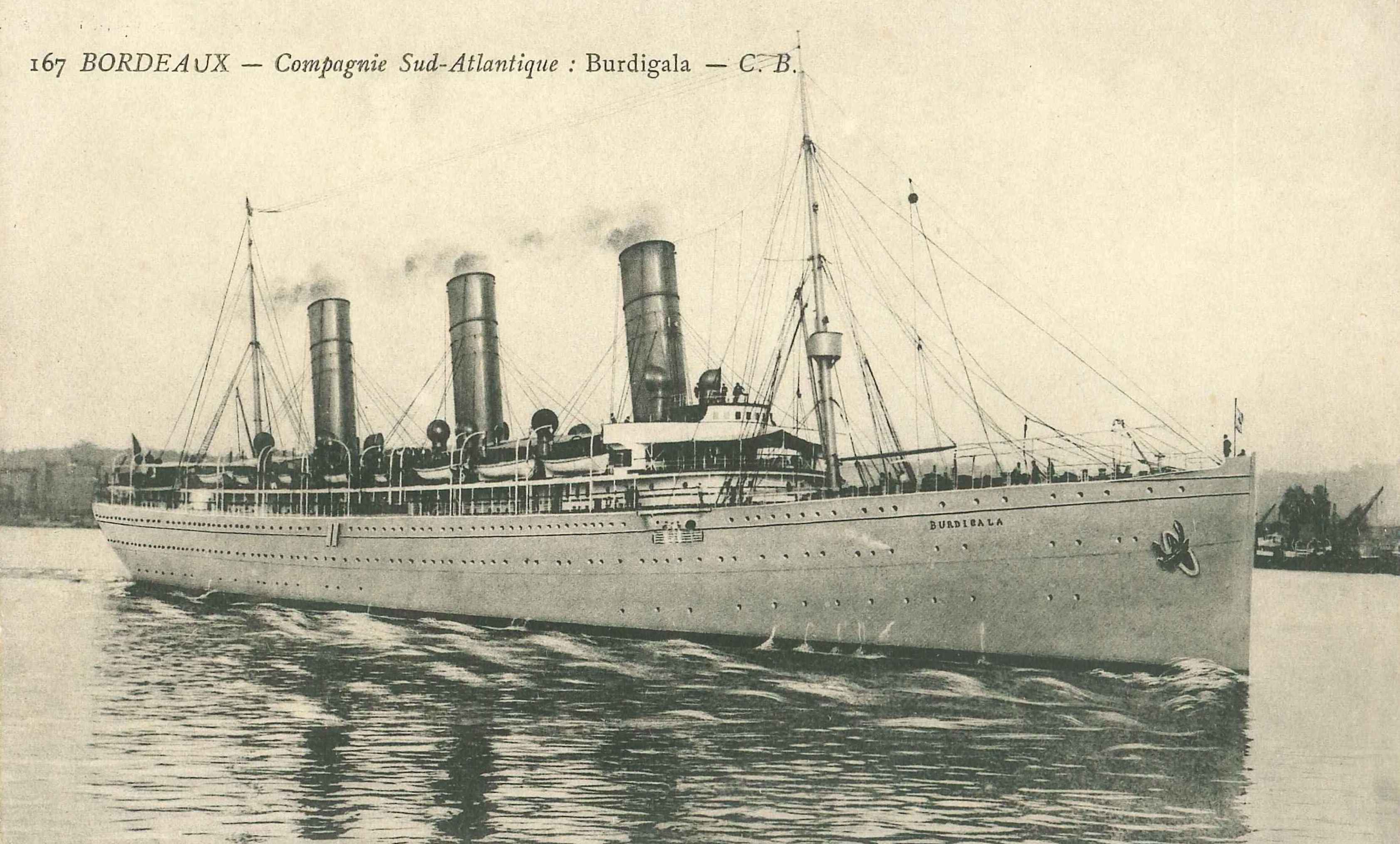 Ocean Liner S/S Burdigala (former S/S Kaiser Friedrich)